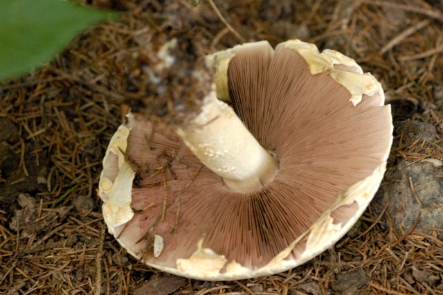 Please contact James Lindsey when you think this is a different taxon. James Lindsey, the copyright holder of this work, hereby publishes it under the following licenses: Attribution: James Lindsey at Ecology of Commanster